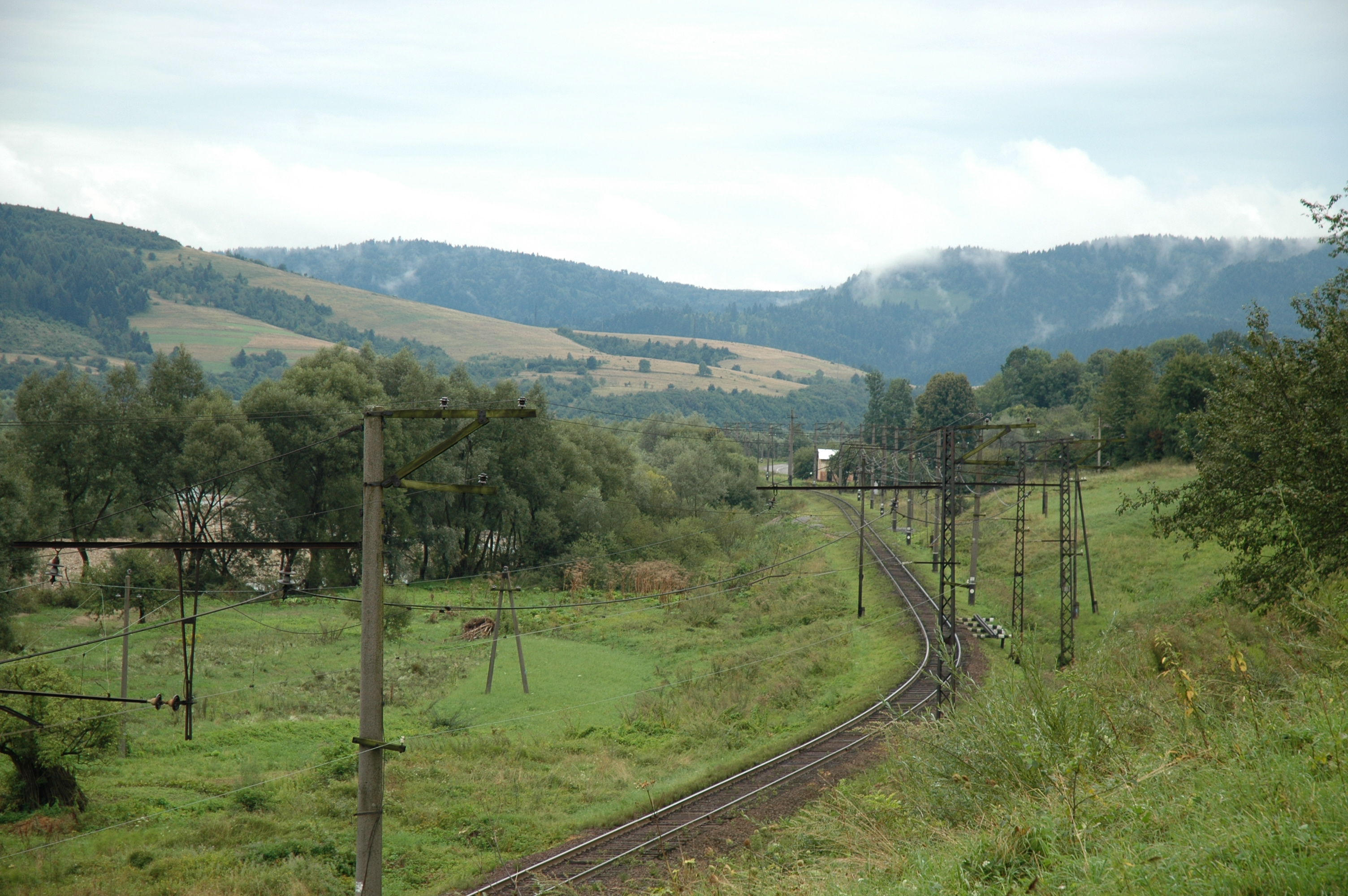 A part of the Uzhhorod-Lviv railway line in the valley of Dnister at Staryi Sambir